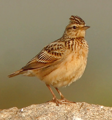 Syke's crested lark (Galerida deva), India